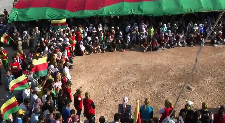 PYD supporters at a funeral for a local Kurd of a village outside of Afrin, Aleppo Governorate, Syria. Person had died fighting alongside the PKK in Turkey.